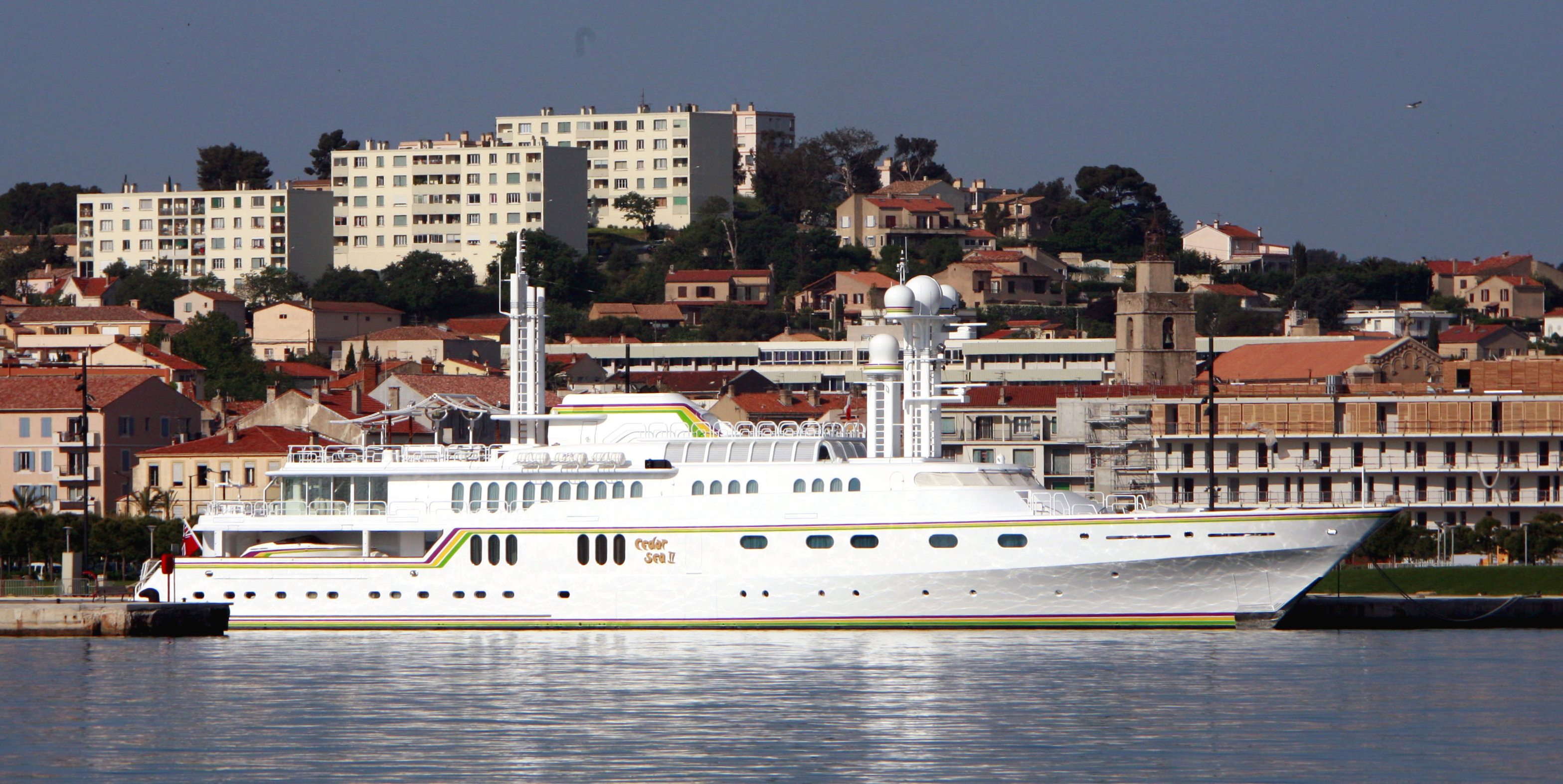 Cedar Sea II in Toulon harbour.